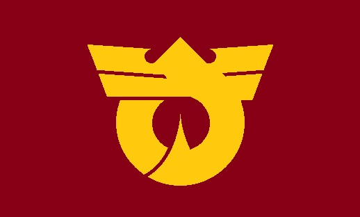 Flag of Kisosaki Mie